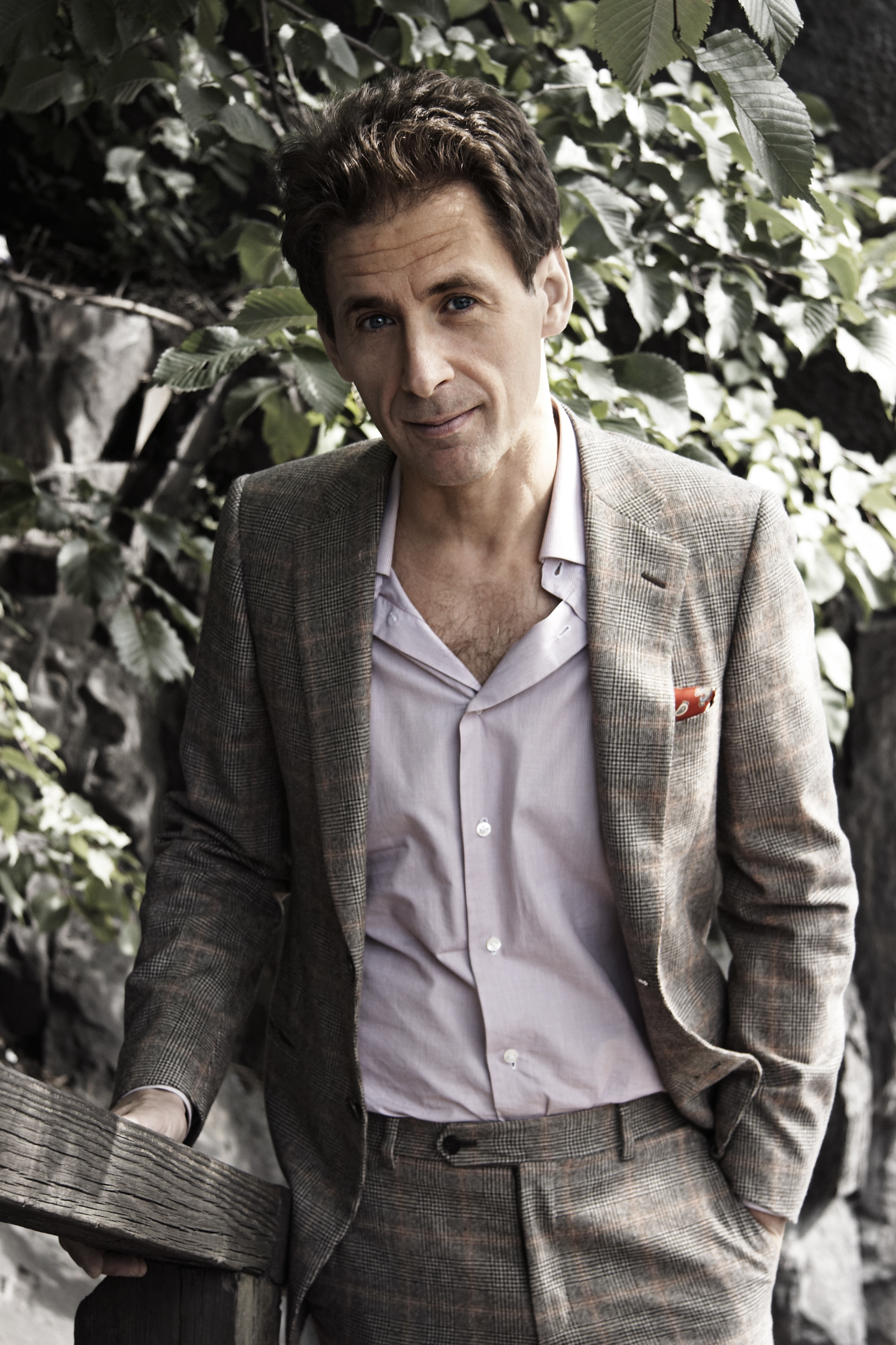 David Lagercrantz, Swedish author